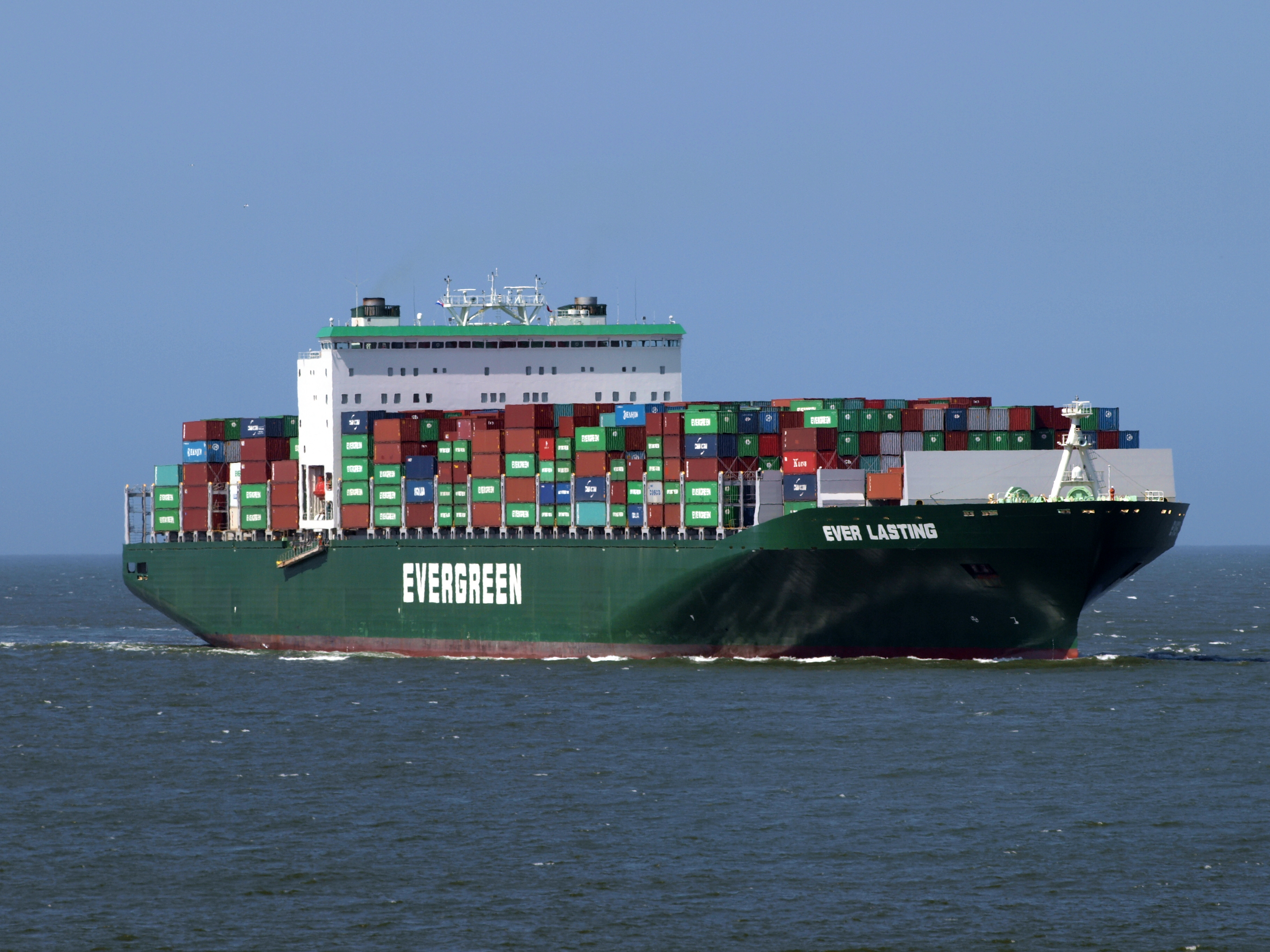 Photographed at or near the Port of Rotterdam.